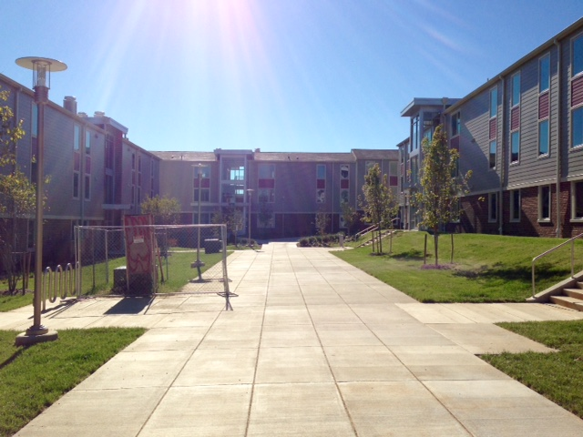 A view of the new quad of the West Hills residential community on the campus of the U of Maryland, Baltimore County